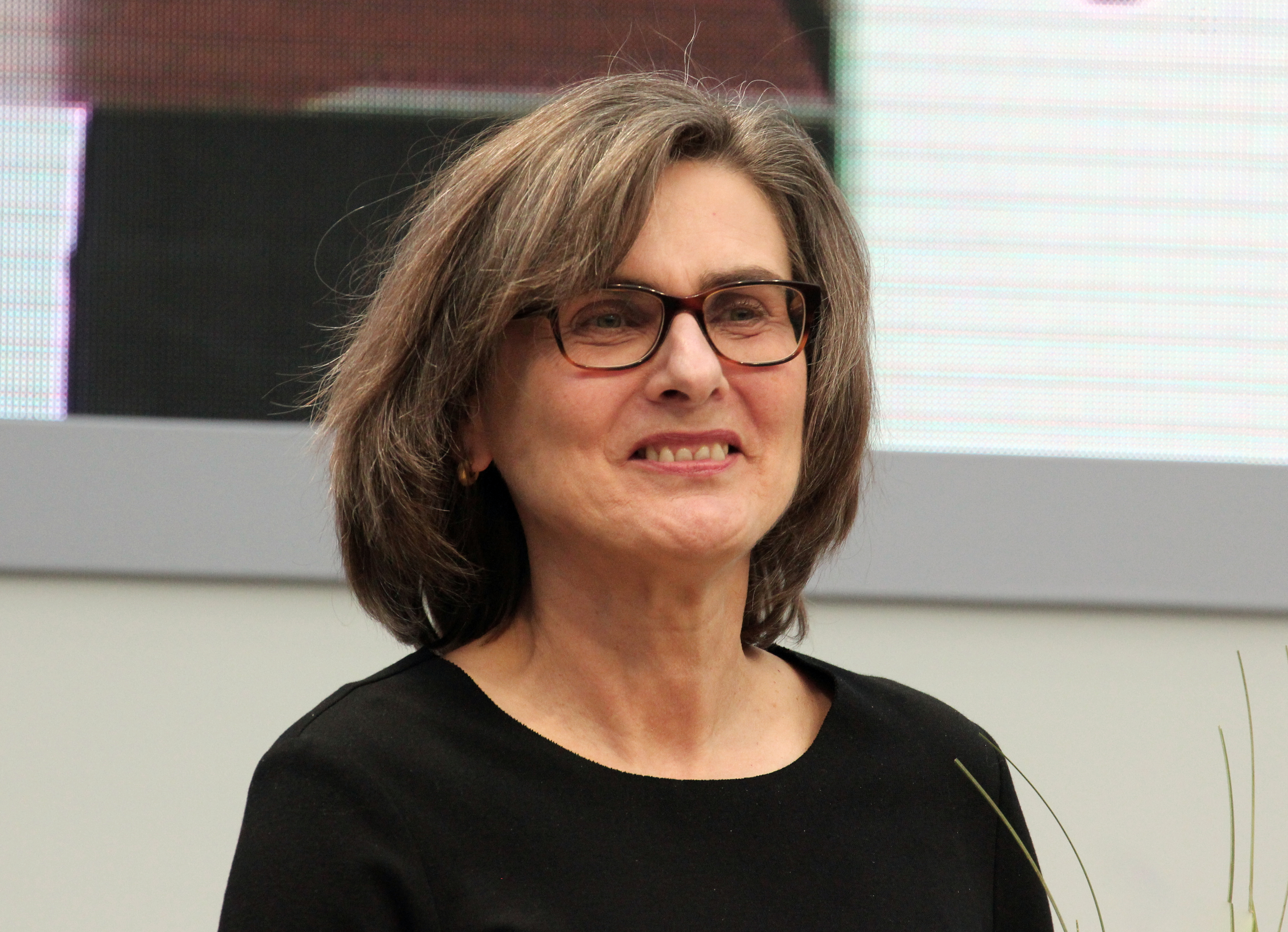 Barbara Stollberg-Rilinger Leipzig Book Fair 2017